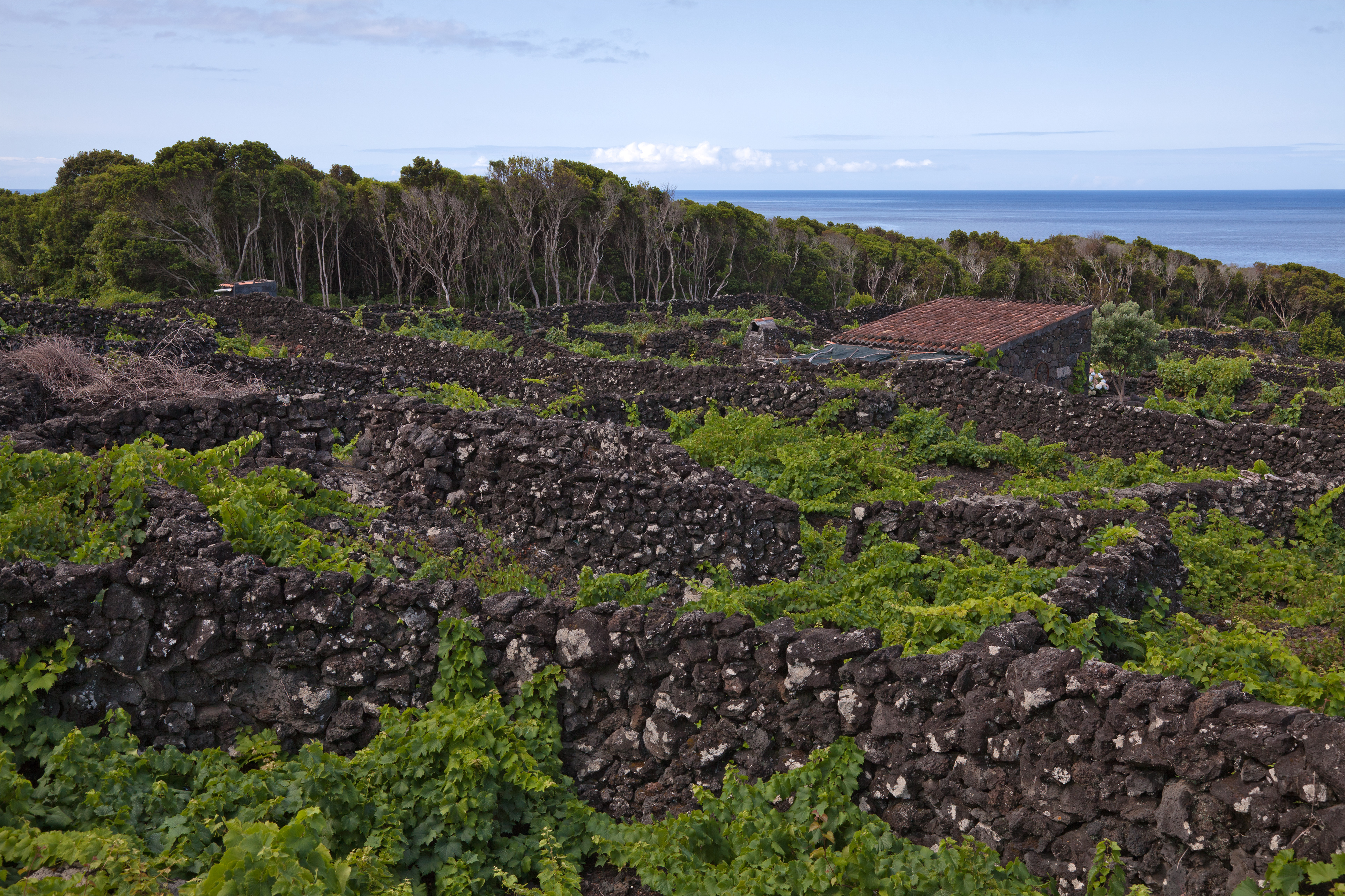 Landscape of the Pico Island Vineyard Culture